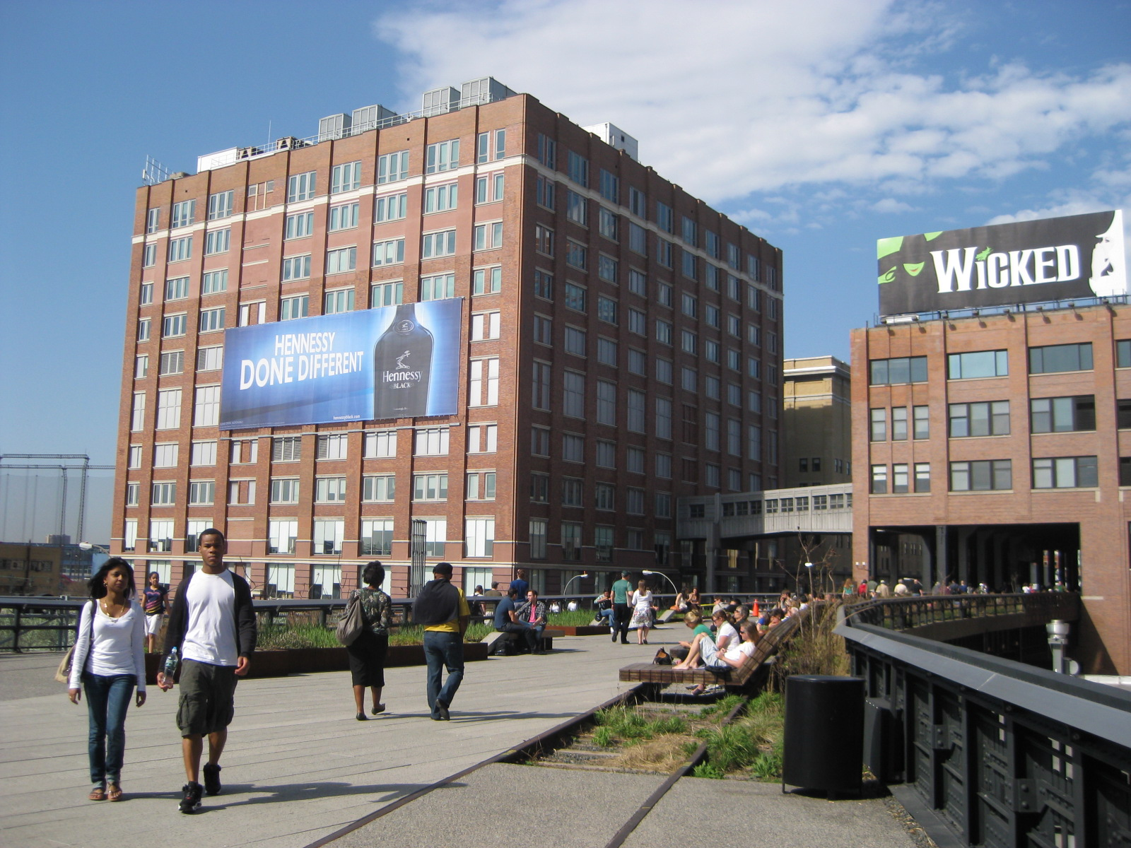 Highline in New York